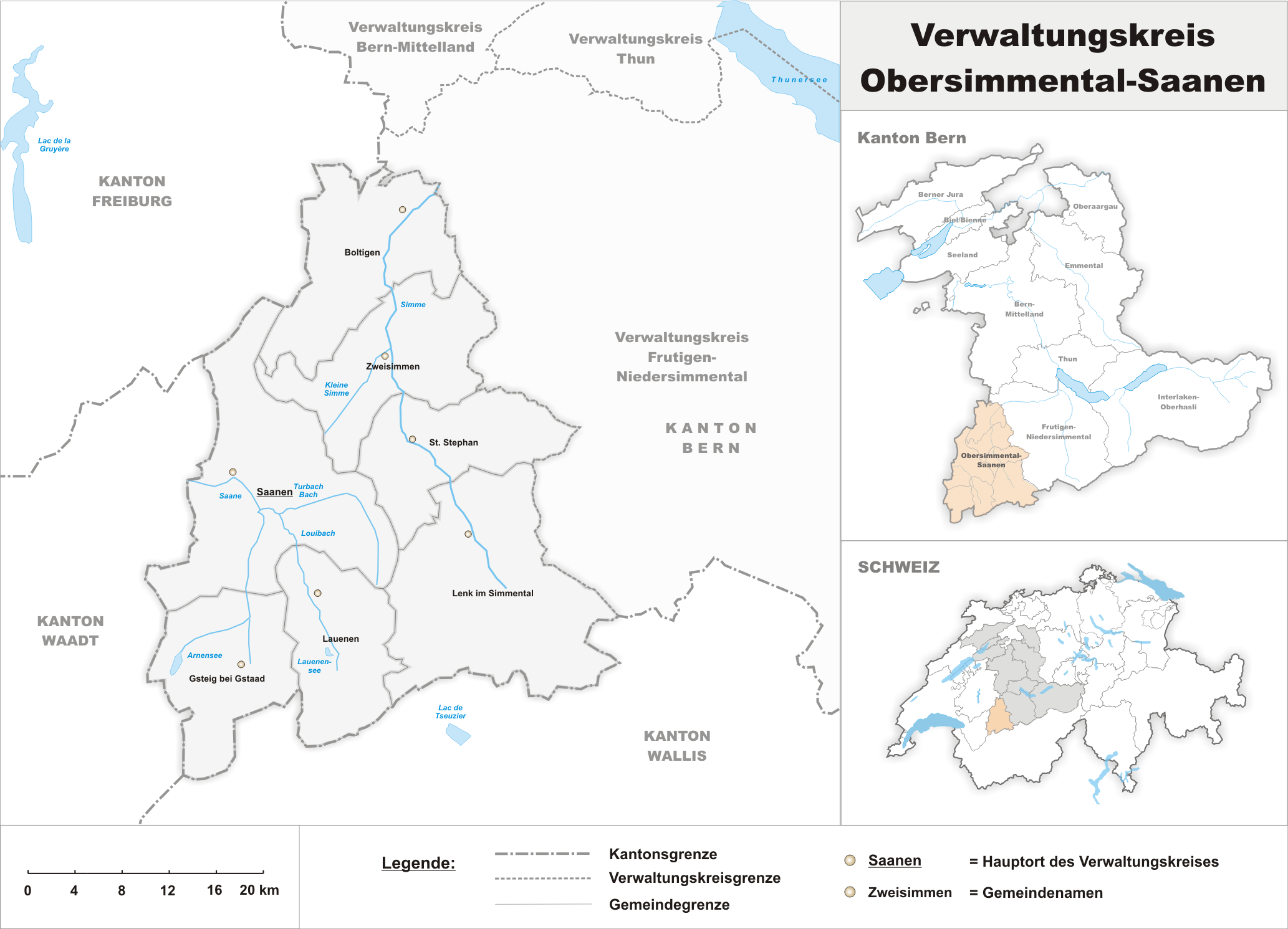 Municipalities in the district of Obersimmental-Saanen